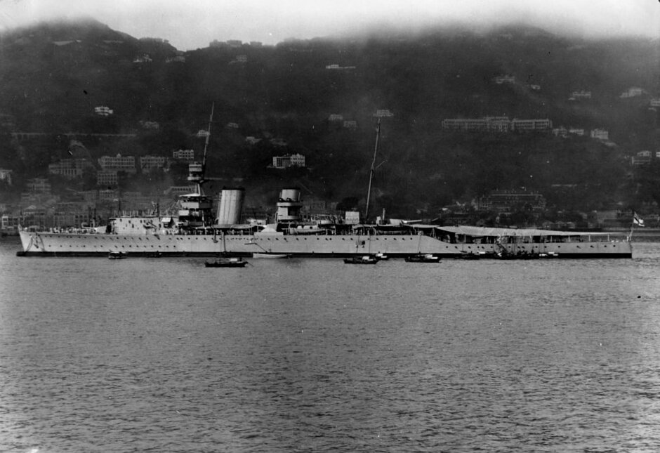 PictionID:38277999 - Catalog:AL-135A 236 HMS Vindictive China c1926 - Filename:AL-135A 236 HMS Vindictive China c1926.tif - This image is from a photo album donated to the Museum by JL Highfill which includes images taken in the Pacific during the Second World War-----------PLEASE TAG this image with any information you know about it, so that we can permanently store this data with the original image file in our Digital Asset Management System.-----------------SOURCE INSTITUTION: San Diego Air and Space Museum Archive